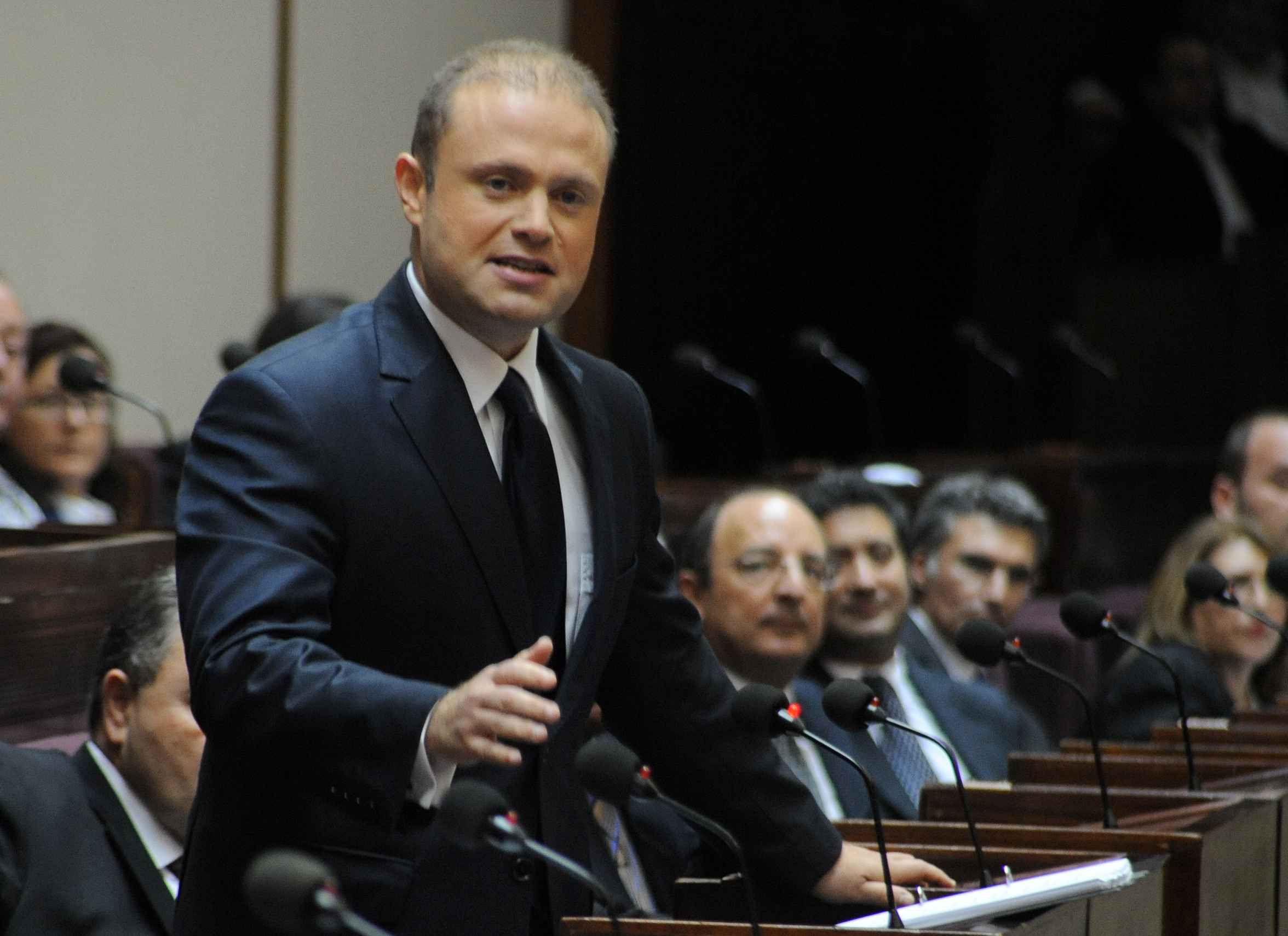 Dr.Joseph Muscat addressing Maltese Parliament in November 2011